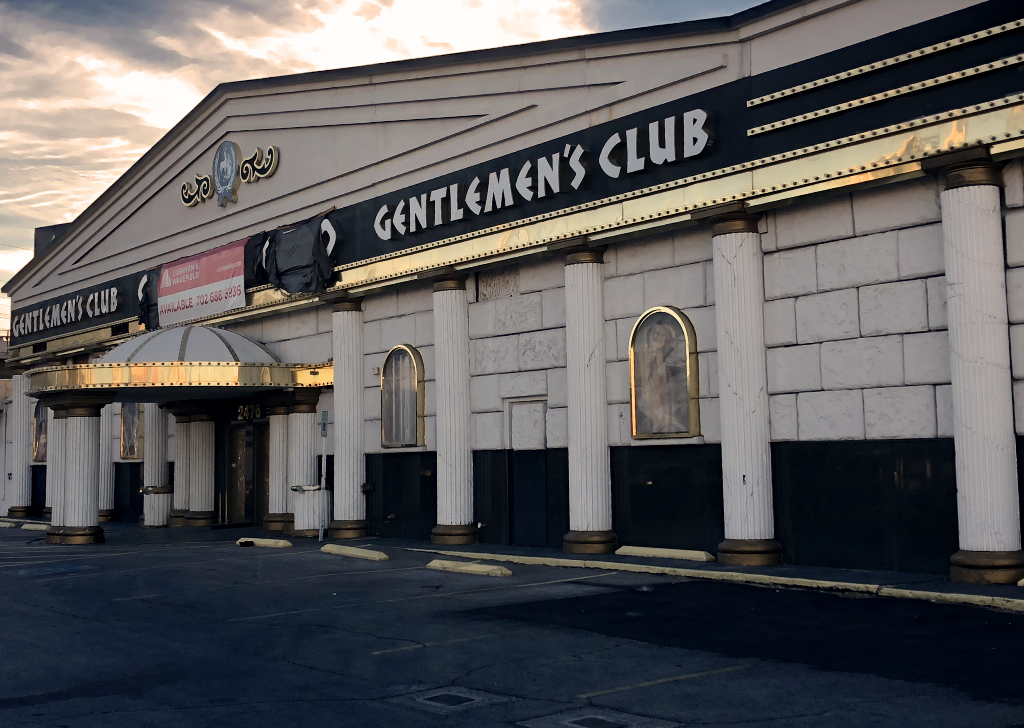 Built in 1972. Opened as Billy Joe's. Purchased in 1978 and became Billy Joe's Crazy Horse Too. Renamed Crazy Horse Too in 1981. Crazy Horse Too permanently closed in 2014. In the early 1990s, adult film superstar Jenna Jameson danced at this club.